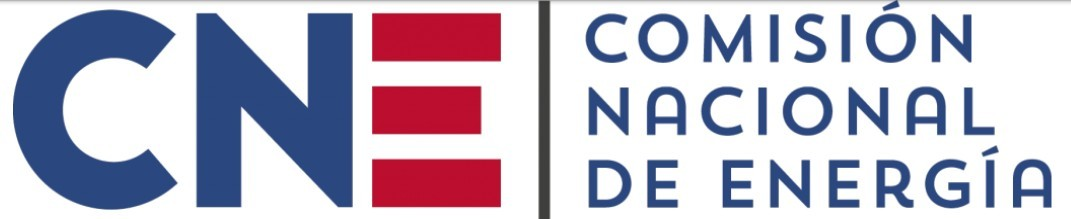 Logo of the National Energy Commission (CNE) since used since March 2010